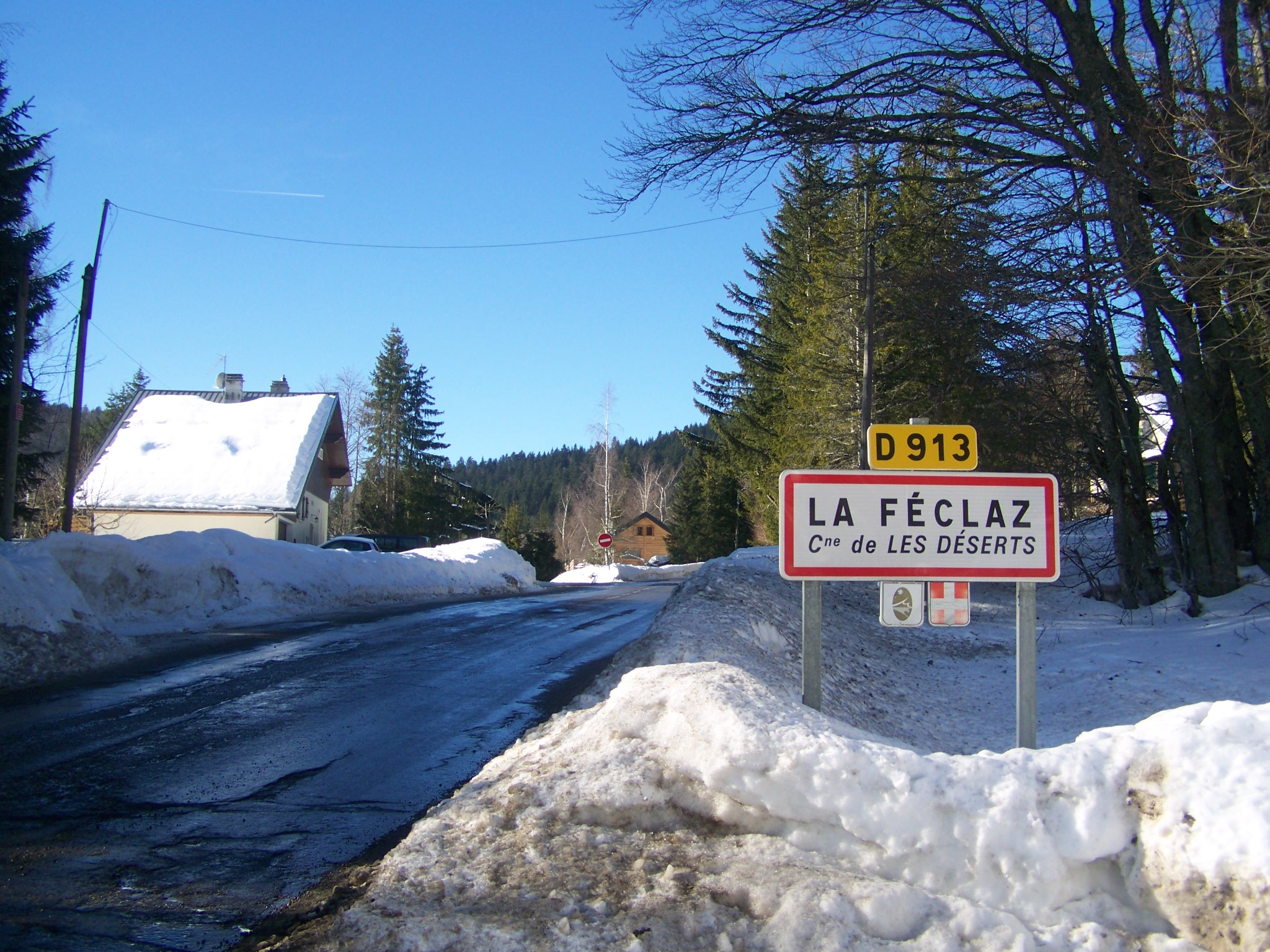 Welcoming roadsign to La Féclaz, part of Savoie Grand Revard ski resort in the Bauges mountains, Savoie, France.